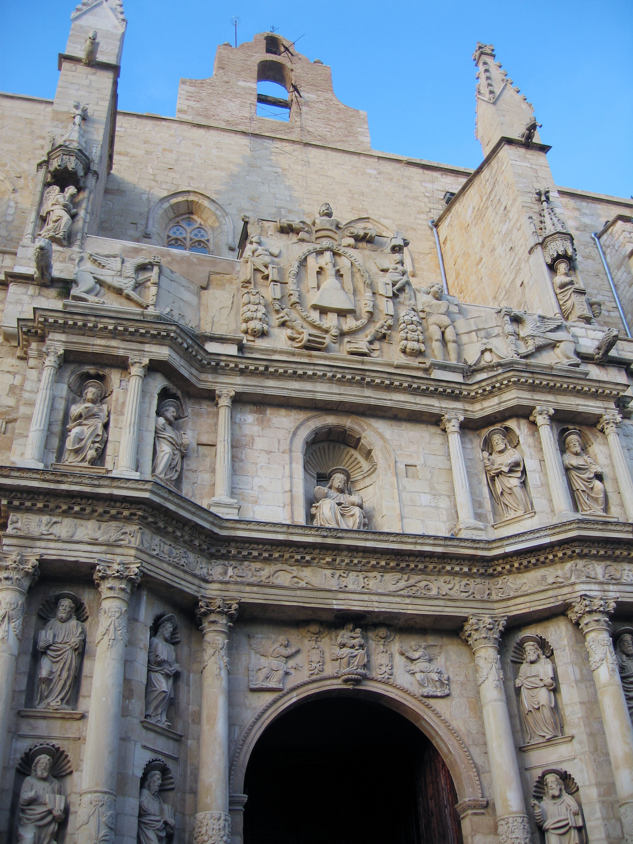 Church of Santa Maria in Montblanc in the province of Tarragona (Catalonia).